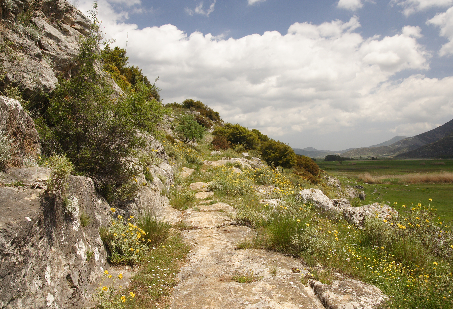 Stymphalos, Peloponnese, Greece. Ancient road to top of hill (Akropolis). Right: Lake Stymfalia and stone rests of road towards Southwest Gate.